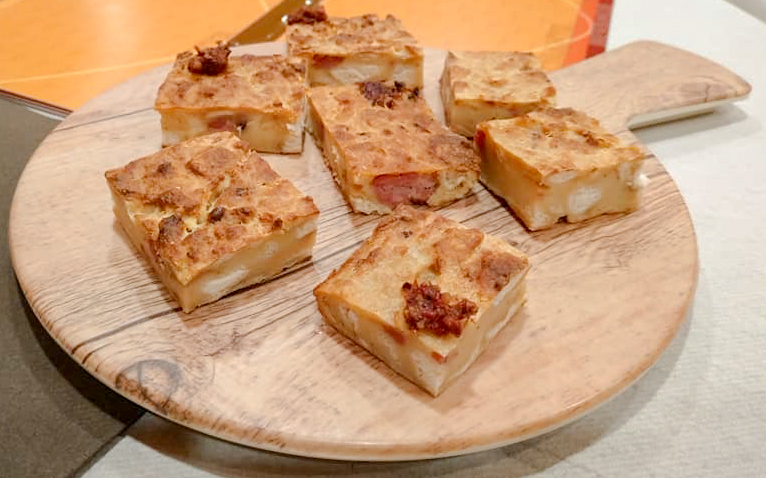 Italian dish stuffed with luganeghe / luganega